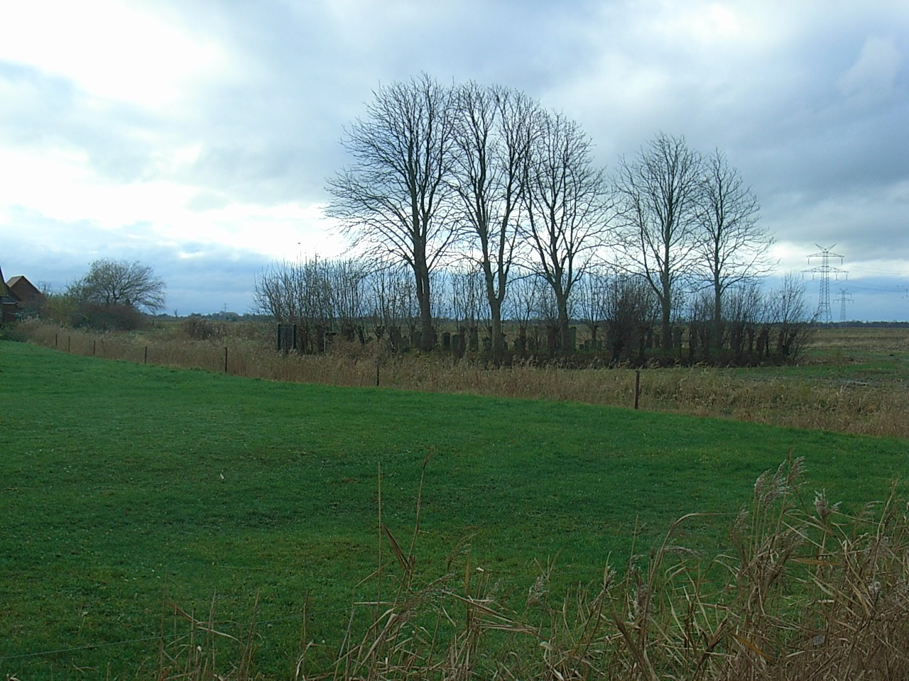 Old jewish cemetery nearby Ovelgönne, Lower Saxony, Germany